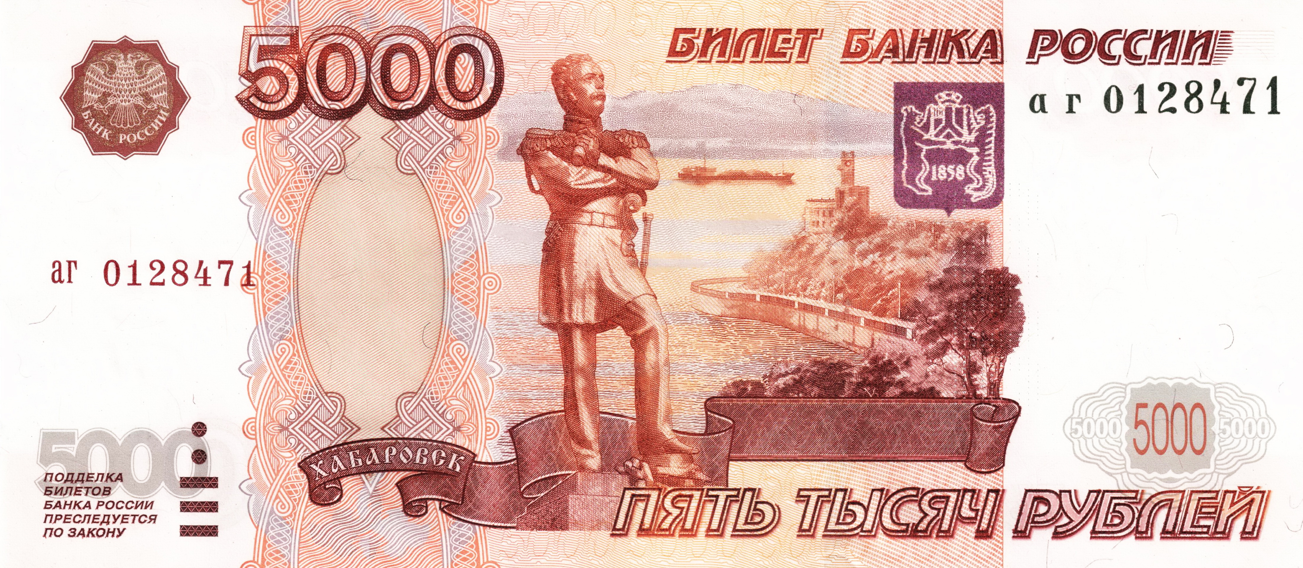 Russian banknote. 5000 rubles, dated 1997. Introduced in 2006. Front